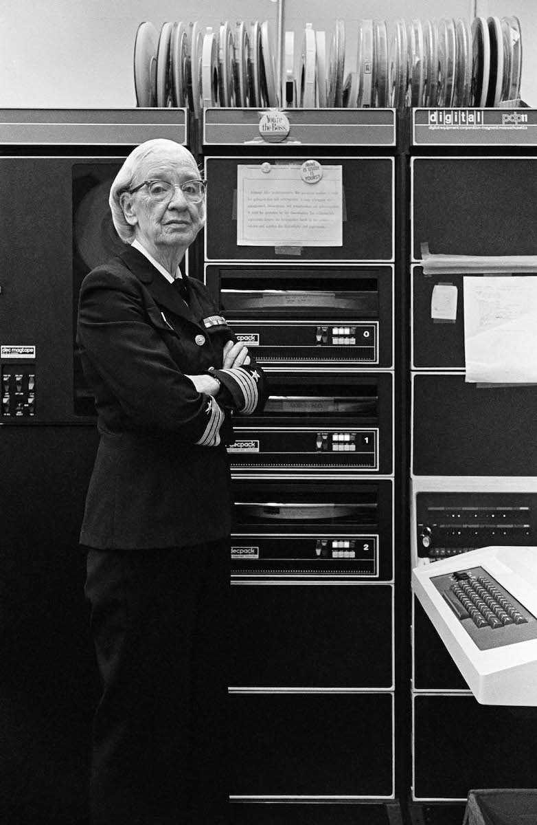 Grace Murray Hopper, in her office in Washington DC, 1978, ©Lynn Gilbert